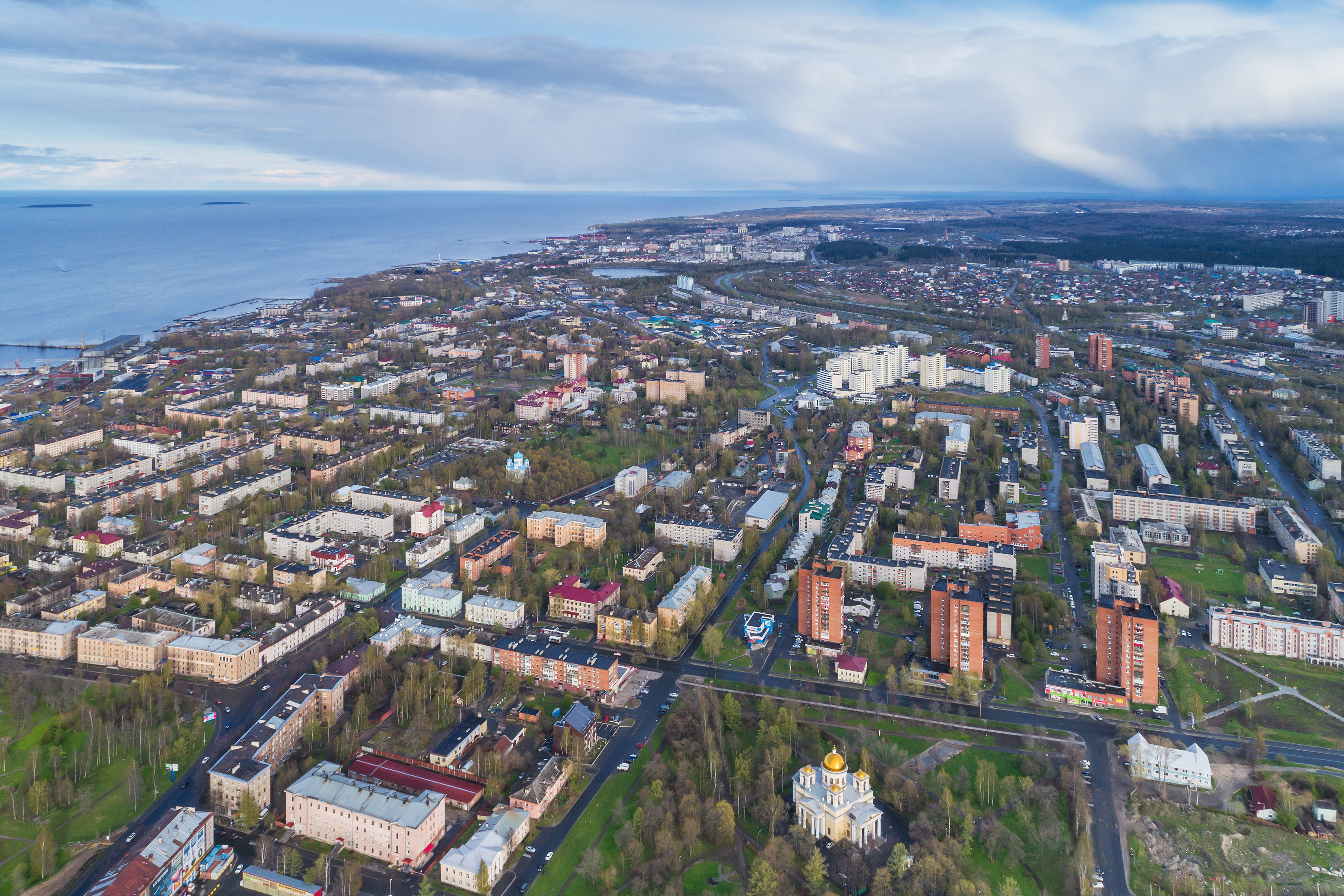 Aerial photo of Petrozavodsk, Republic of Karelia (Russia).